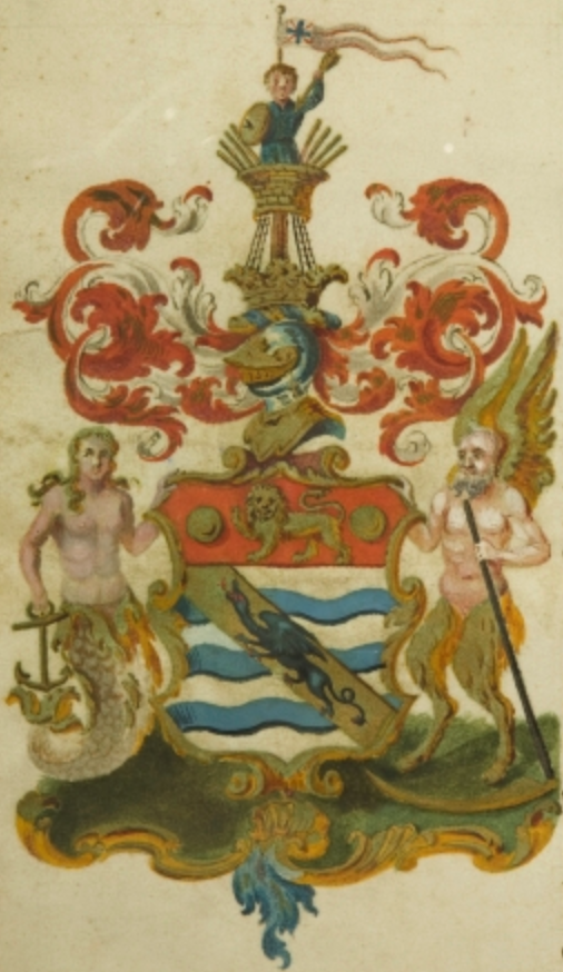 Arms of the Company of Merchant Adventurers of Bristol: Barry wavy of eight argent and azure, on a bend or a dragon passant wings indorsed tail extended vert on a chief gules a lion passant guardant of the third between two bezants. detail from 1569 Charter of King Edward VI incorporating the Merchant Venturers of Bristol. Collection of Bristol Record Office, object no. SMV/1/1/2/1